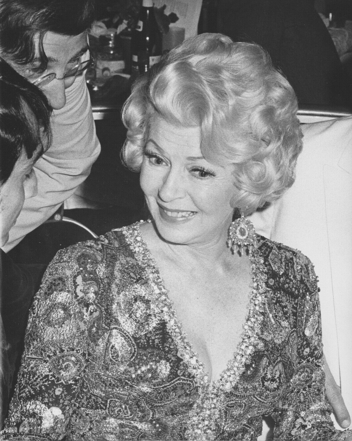 Lana Turner in 1972